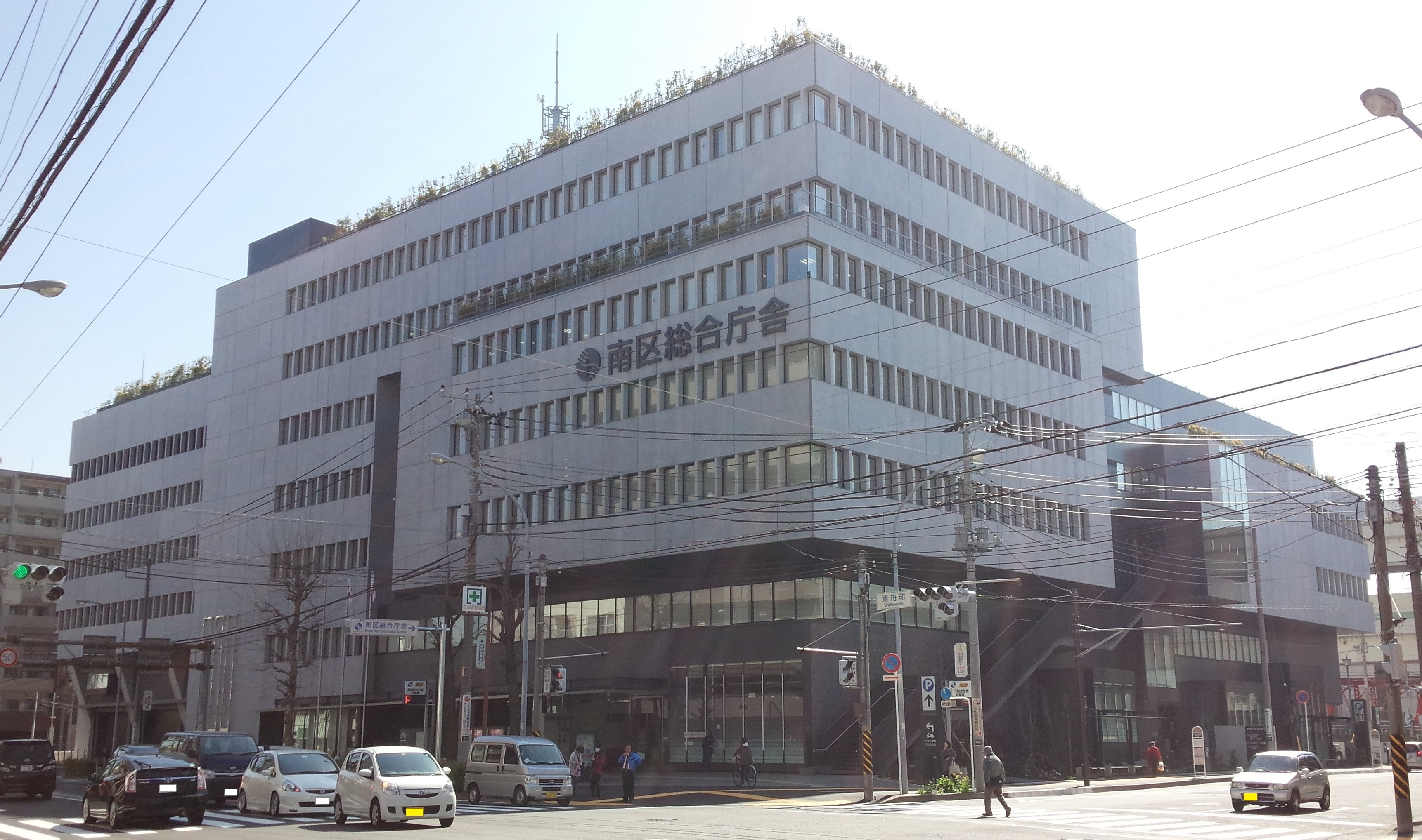 Yokohama City Minami Ward Urahune Office